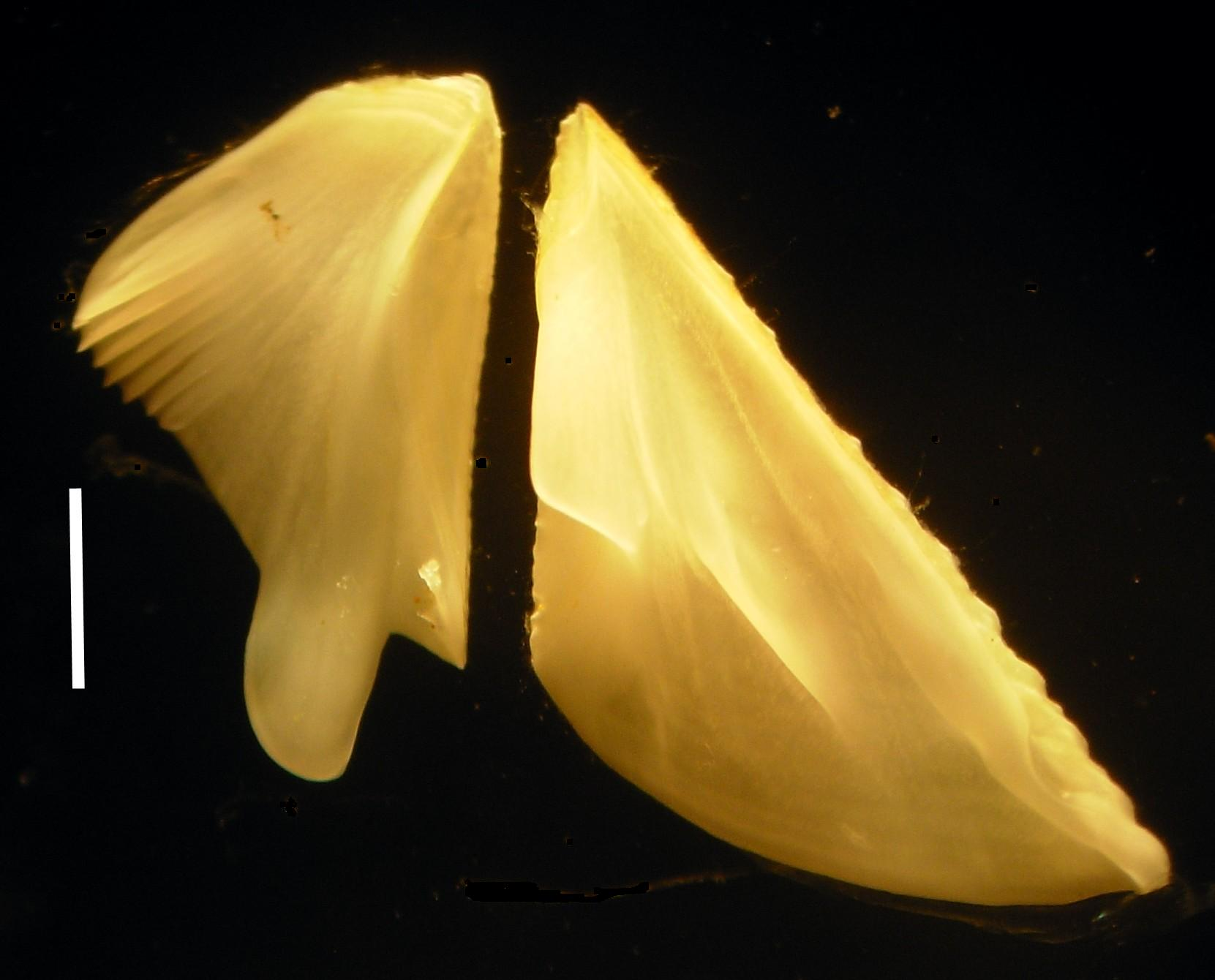 Balanus improvisus: tergum (left) and scutum (right), inside view. Bar= 1mm, animal base length, 11,5 mm.